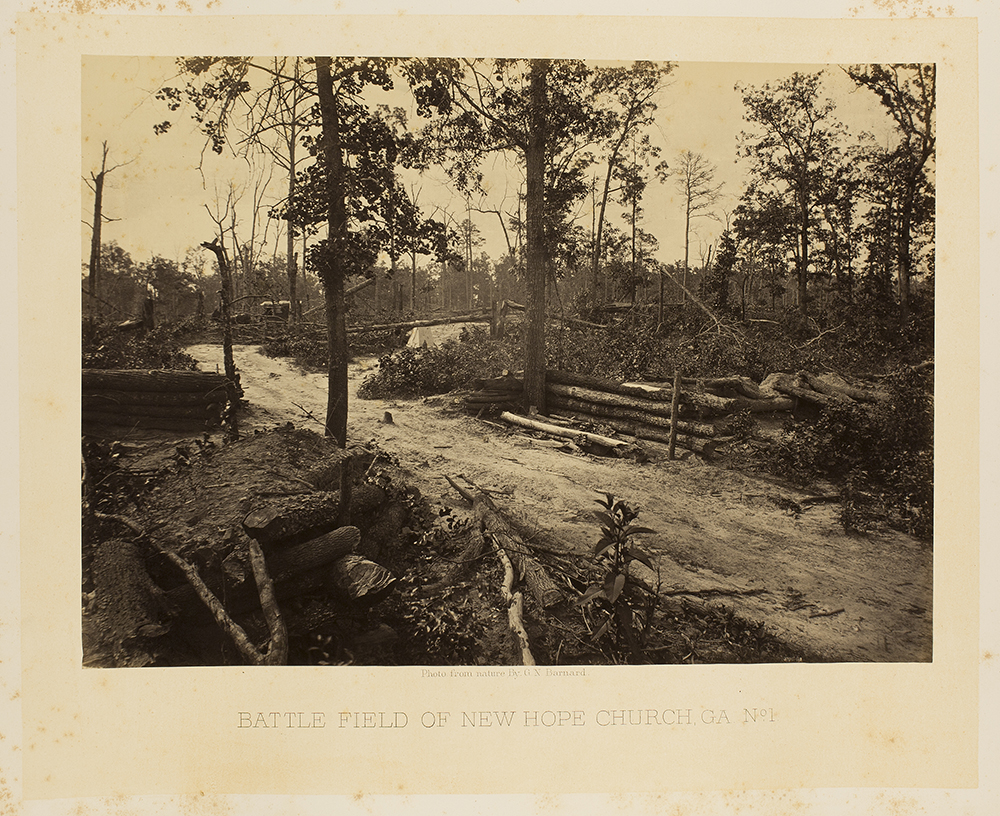 Title: Battle Field of New Hope Church, GA. No. 1. Alternative Title: [Battle Field of New Hope Church, Georgia, No. 1] Creator: Barnard, George N. Date: ca. 1864-1866 Part Of: Photographic views of Sherman's campaign, from negatives taken in the field Place: Dallas, Georgia Related Resources: Physical Description: 1 photographic print: albumen; 26 x 36 cm. on 41 x 51 cm. File: vault_folio_2_e470_b24_portfolio_27_sm_opt.jpg Rights: Please cite DeGolyer Library, Southern Methodist University when using this file. A high-resolution version of this file may be obtained for a fee. For details see the web page. For other information, . For more information, View Civil War: Photographs, Manuscripts, and Imprints